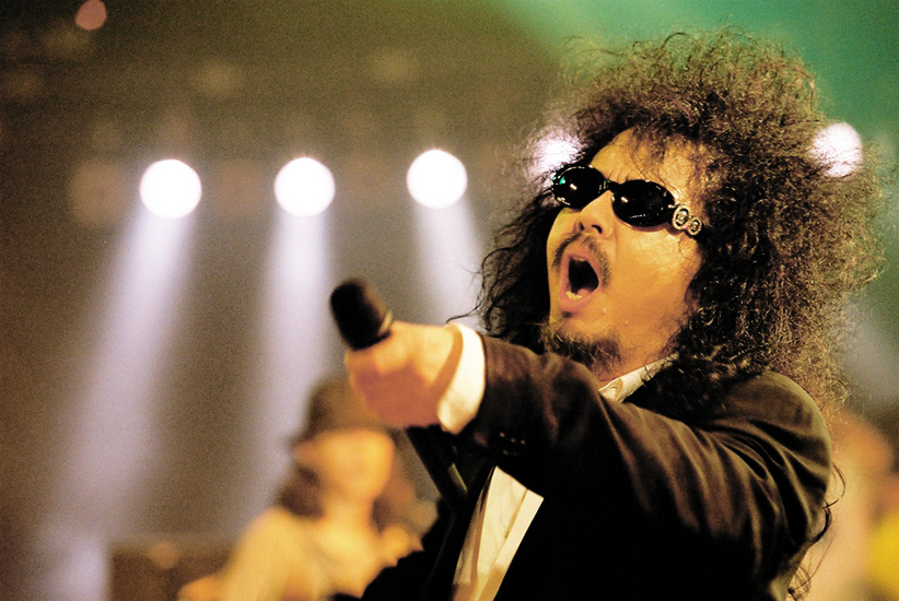 Jun In-gwon performing at the Tele Concert.